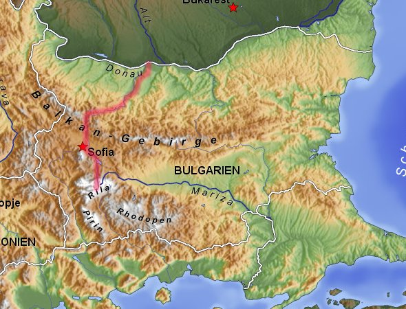 Map of the Iskar River course in northern Bulgaria, flowing through the "Balkan Gierge" mountain range. Also location map of the "Balkan Gierge"—Stara planina—Balkan Mountains, the east-west range from Serbia to the Black Sea.